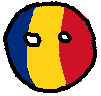 Romaniaball